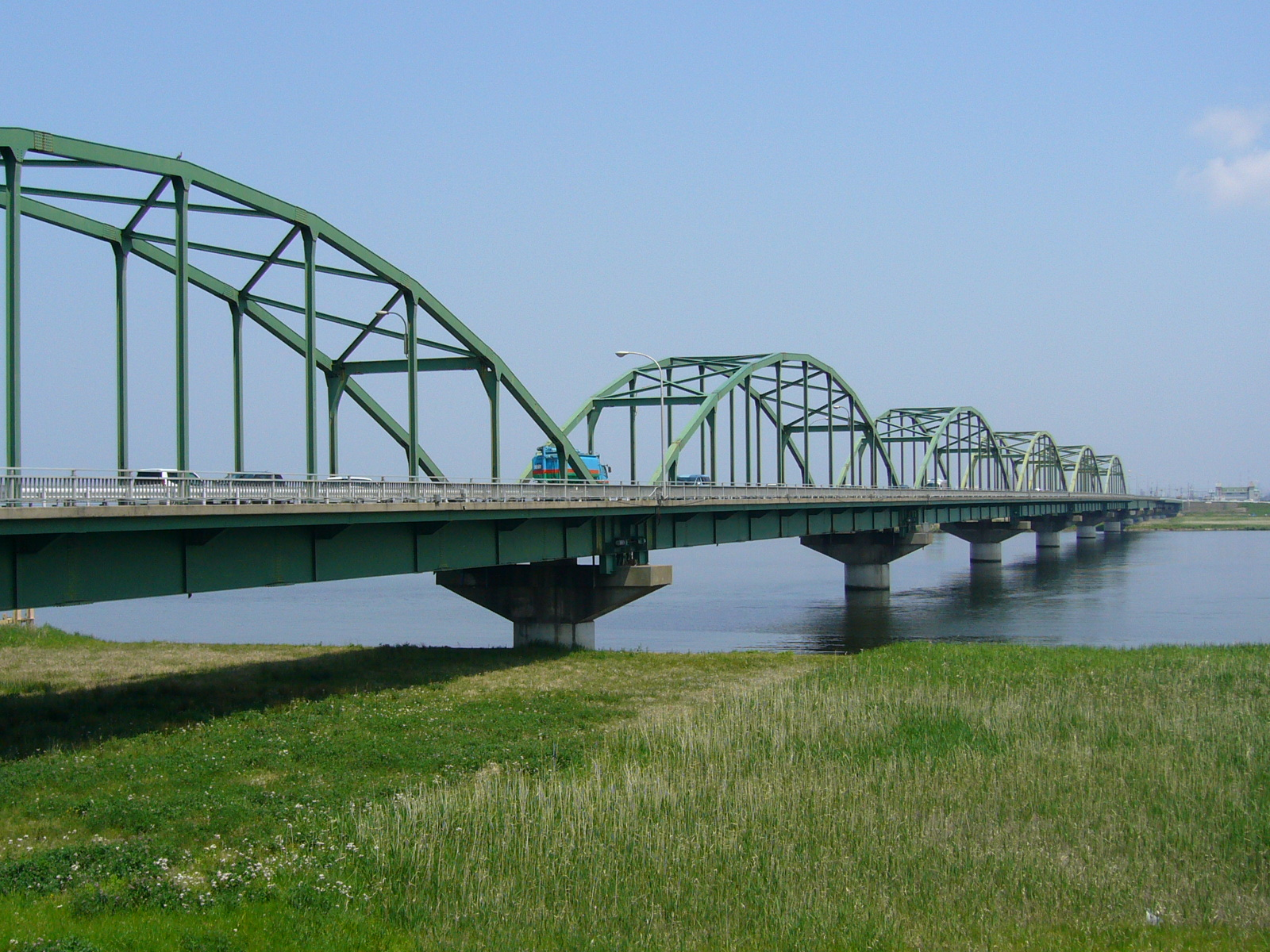 The Omigawa Bridge (Omigawa-ohashi) over the Tone River linking Kamisu City, Ibaraki Prefecture and Katori City, Chiba Prefecture, Japan